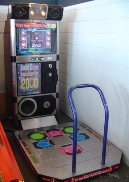 A DDR Solo 2000 machine, located at King Leo's Pizza in Bakersfield, California. Taken by Jason McCay on April 17, en:2005.